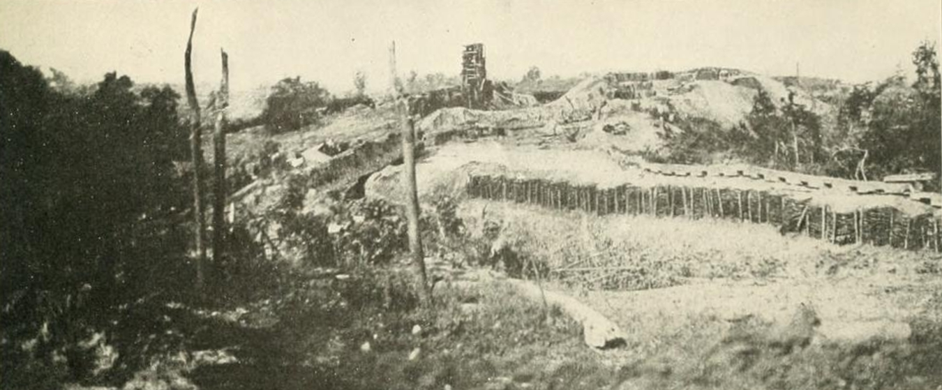 The "Coonskin" Tower served as a lookout and sniping platform during the Siege of Vicksburg for sharpshooters from the 23rd Indiana Infantry